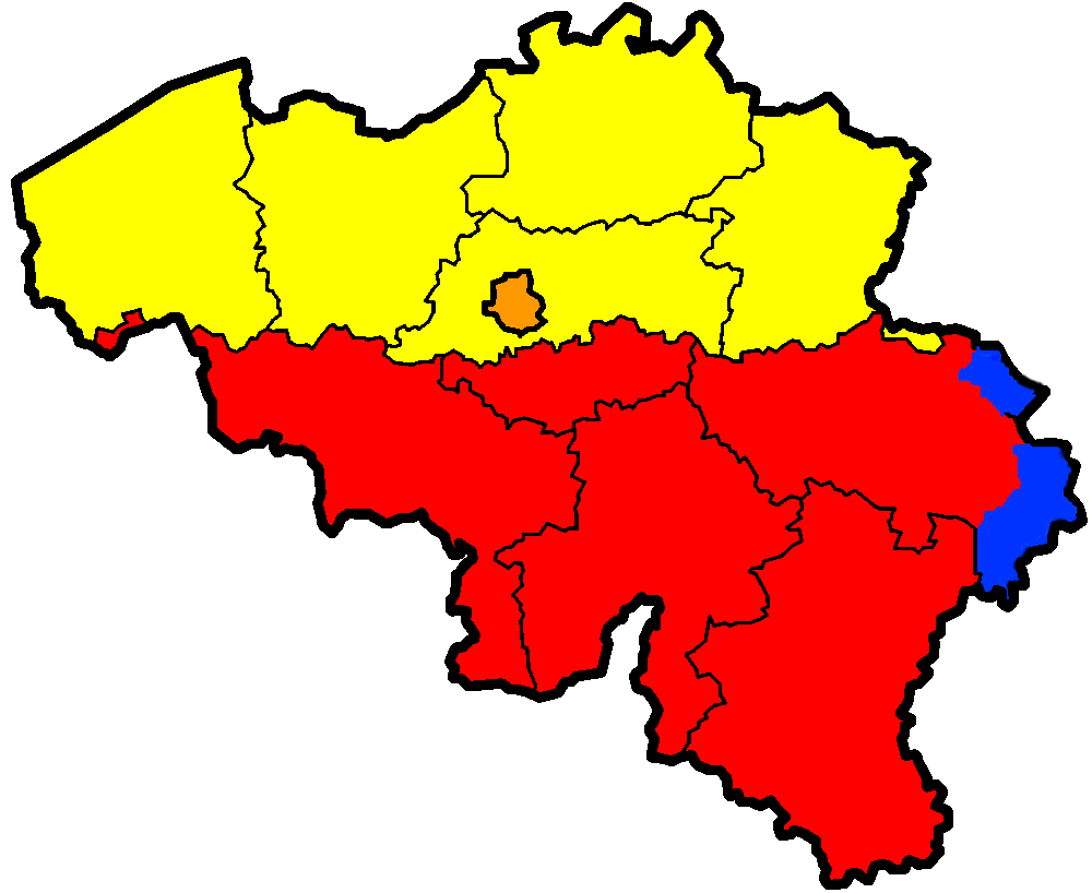 Map of Belgium showing the provinces (black lines) and regions (colours). Yellow = Flanders, Red = Wallonia, Blue = German-speaking part, Orange = Brussels Capital Region.